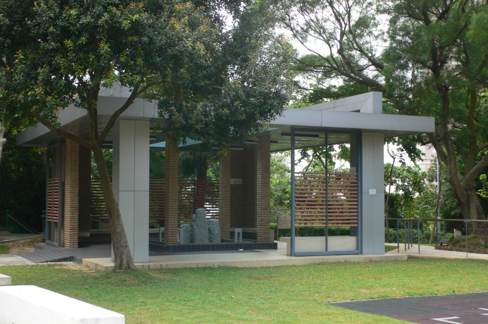 The pavillion in Choi Sai Woo park, Hong Kong